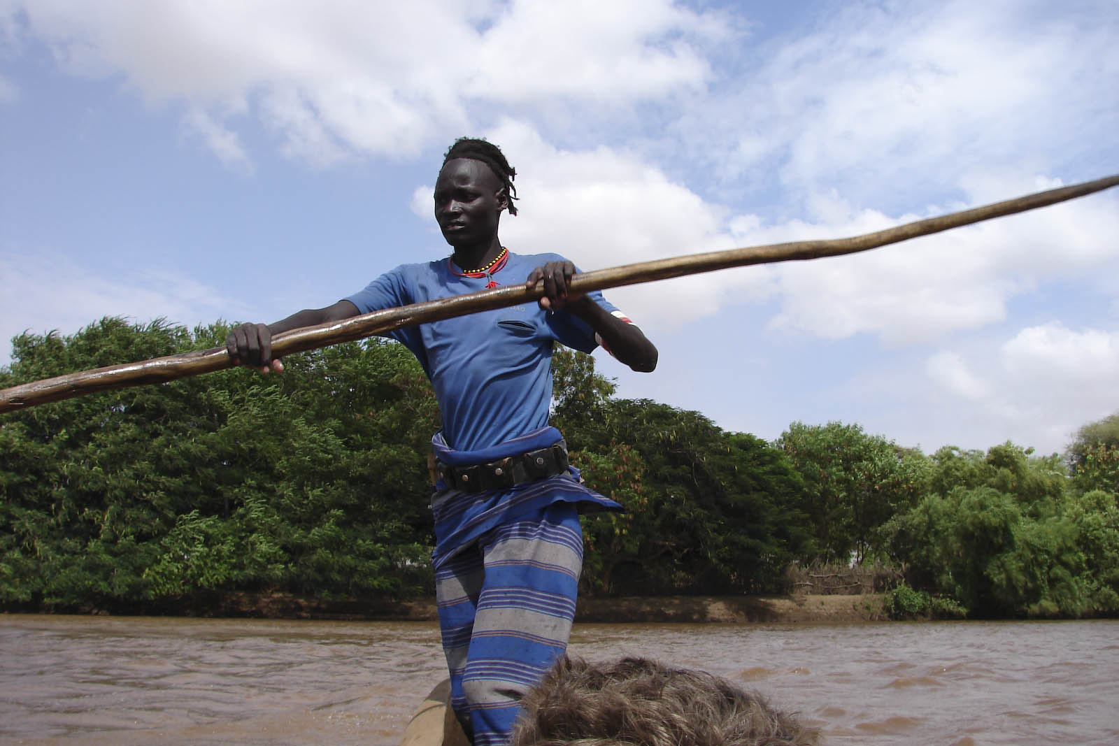 Crossing the Omo in a hollowed out tree (Ethiopia)